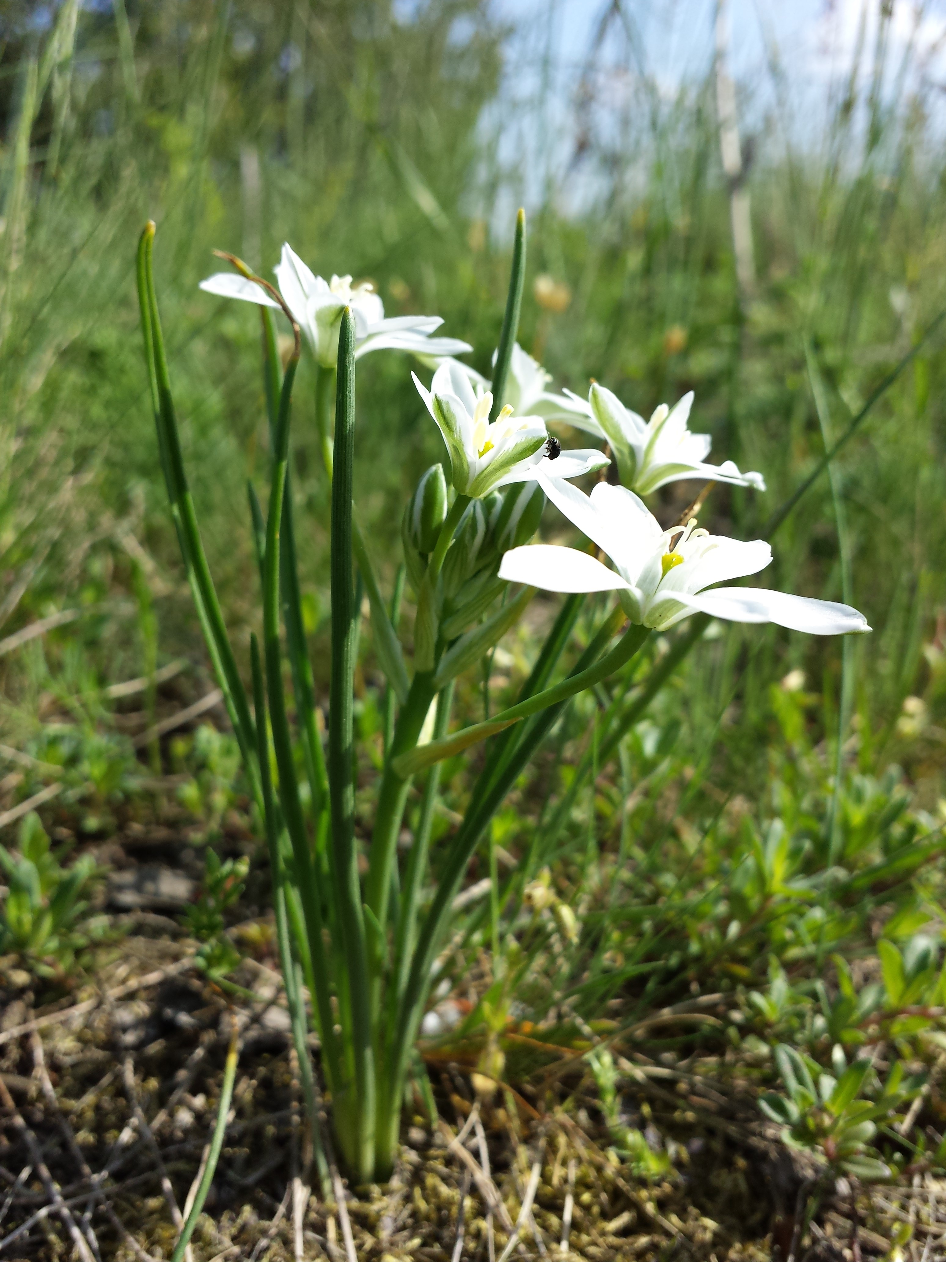 Habitus Taxon: Ornithogalum kochii s. lat. (sensu Fischer et al. EfÖLS 2008 ISBN 978-3-85474-187-9) Location: natural monument "Alte Schanzen", object XII, Vienna-Floridsdorf - ca. 225 m a.s.l. Habitat: dry grassland This media shows the natural monument in Vienna with the ID 695.